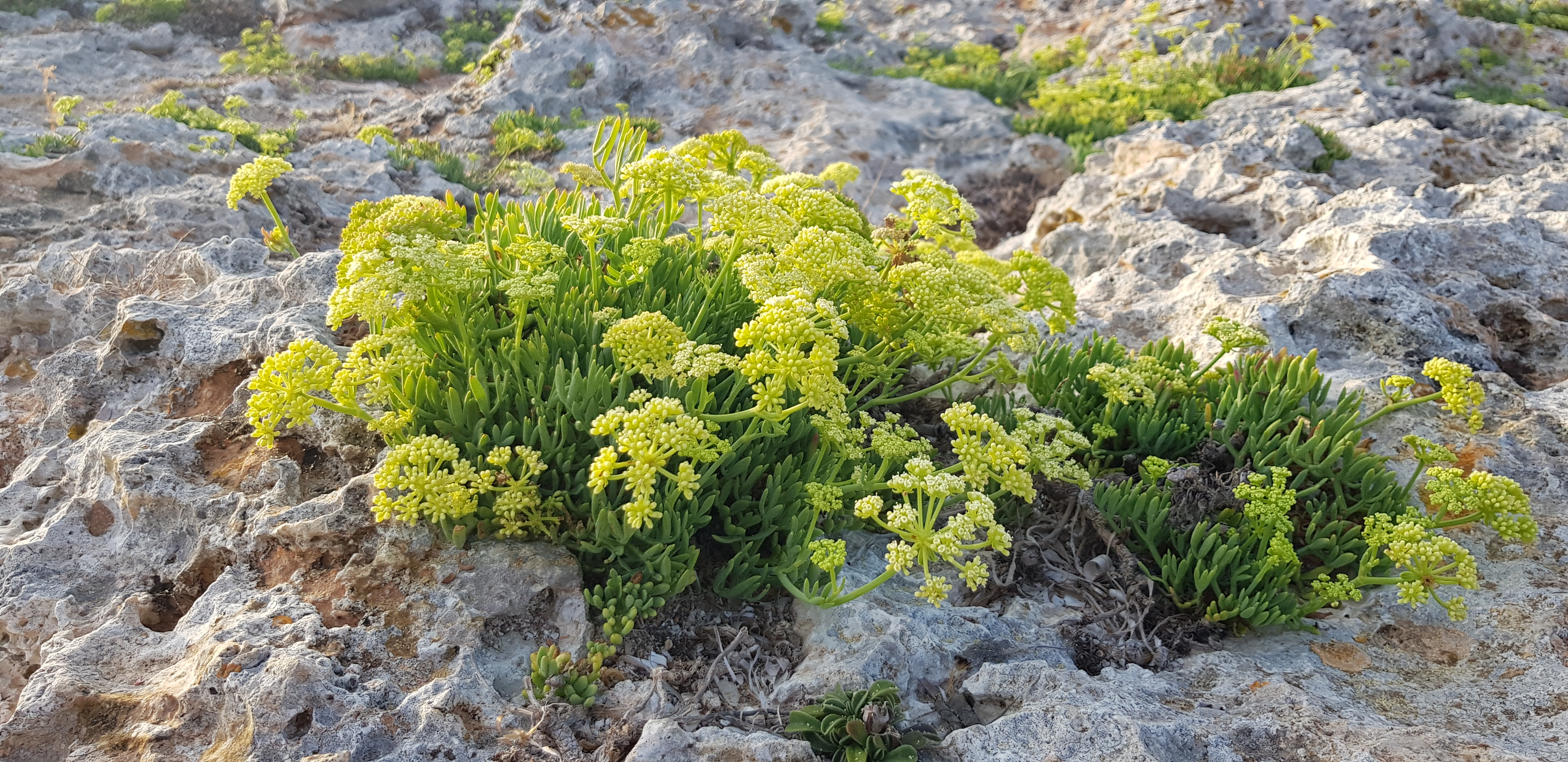 Crithmum maritimum